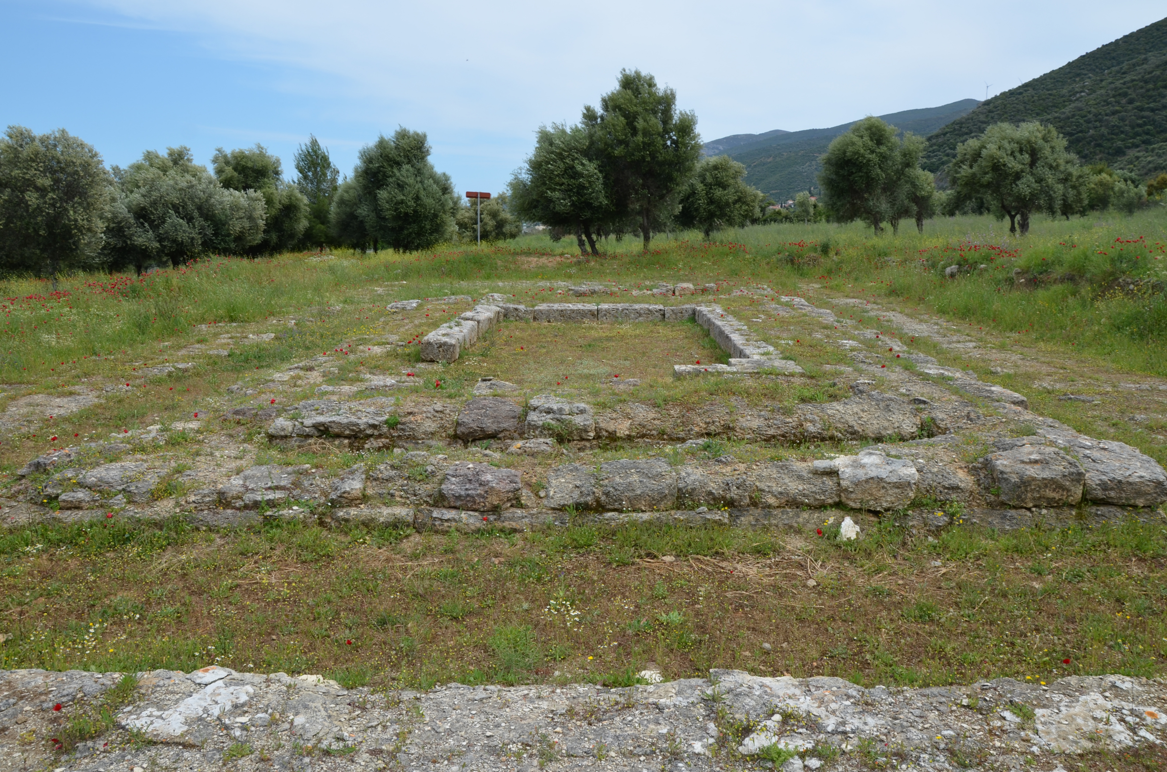 The ruins of the 4th century BC Temple of Hippolytus (son of Theseus) at Troezen, Argolid, Greece